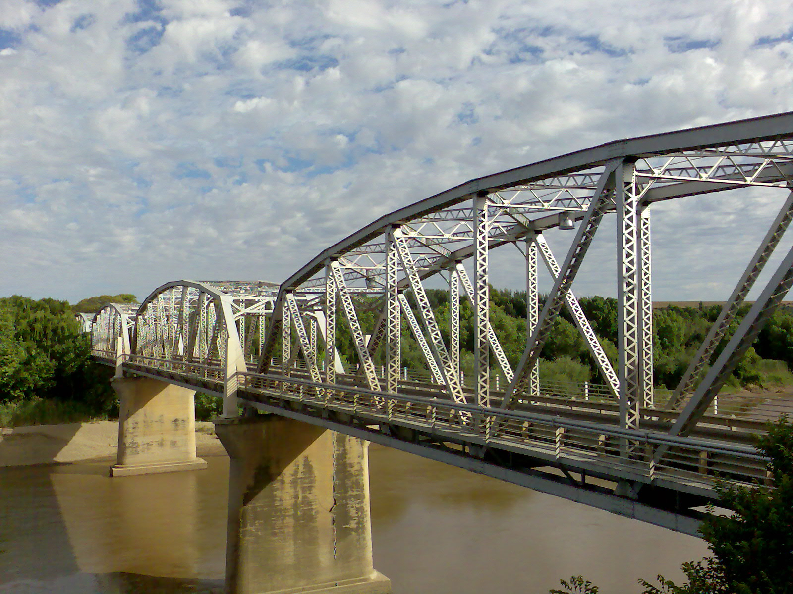 The General Hertzog Bridge, a truss bridge over Orange River at Aliwal North, South Africa